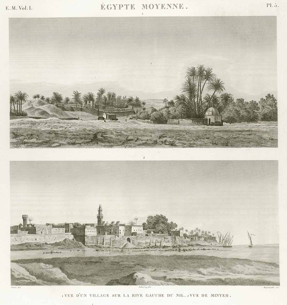 "Description de l´Egypte" (Description of Egypt). Illustration (view to a village)